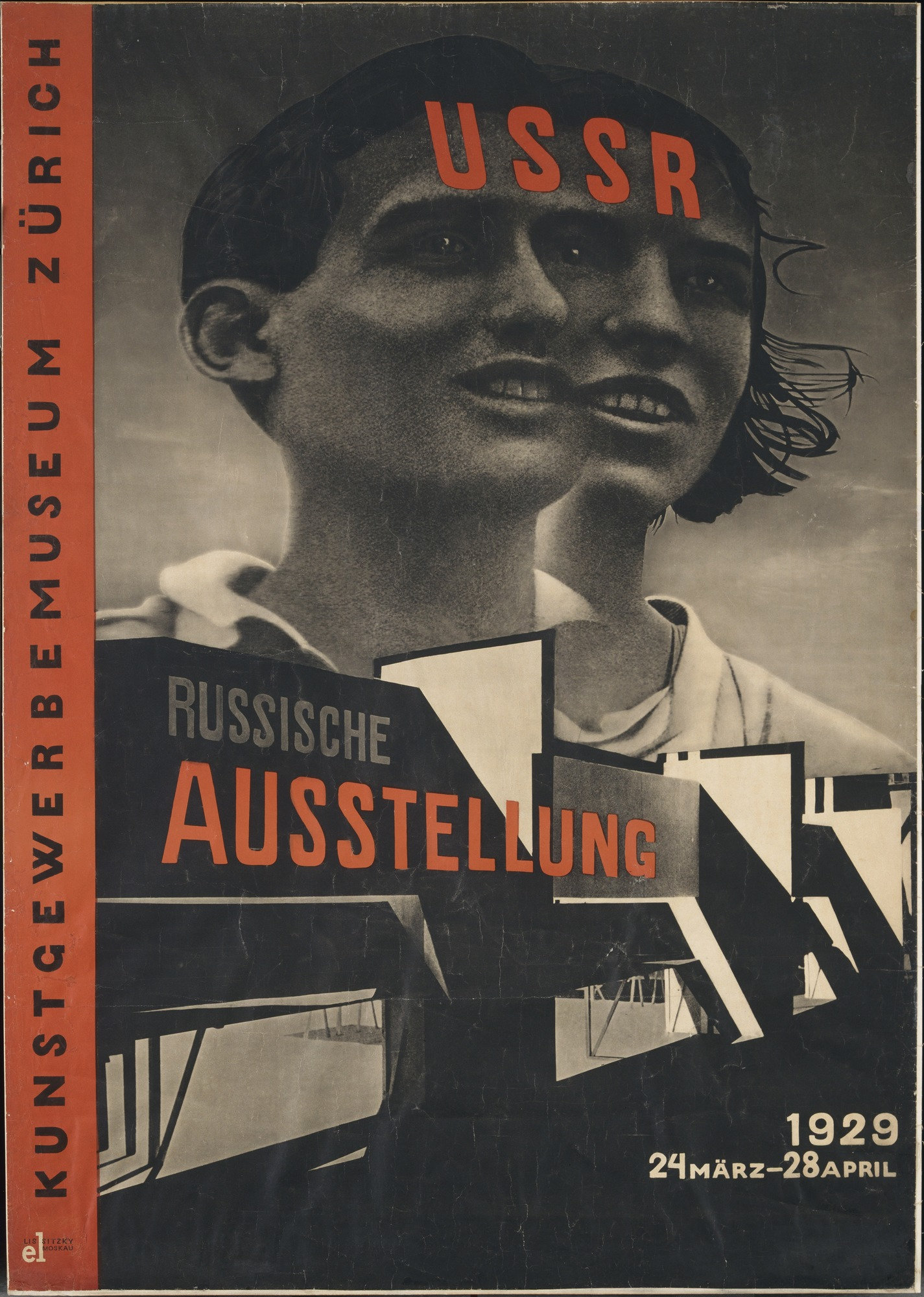 "USSR Russische Ausstellung" by El Lissitsky, 1929. Note that the boy and girl share an eye, as in traditional three faces on one head depictions...